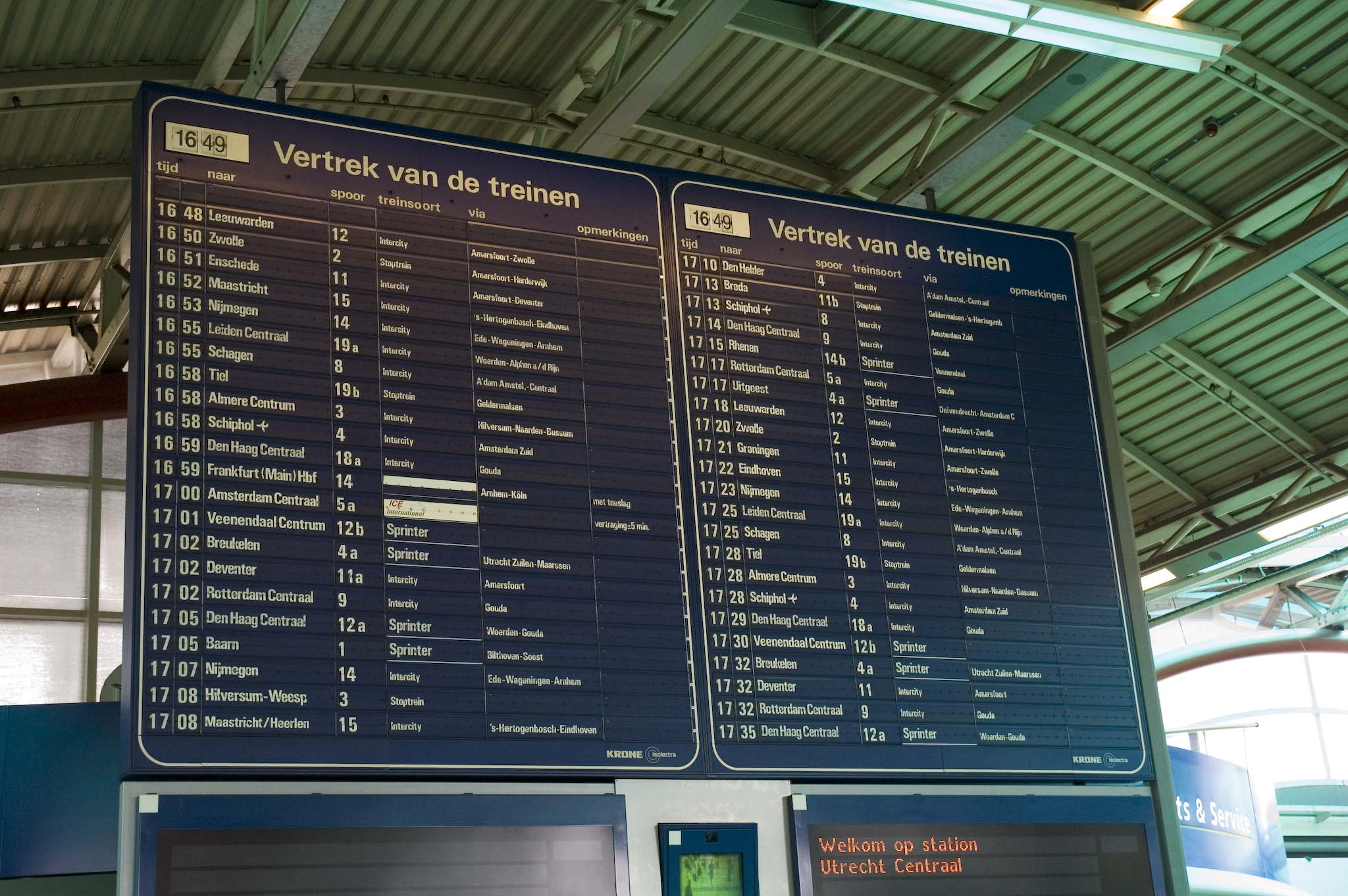 Board with actual departure times at Utrecht Central station